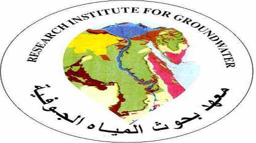 Slogan of the Research institute for Groundwater (RIGW)